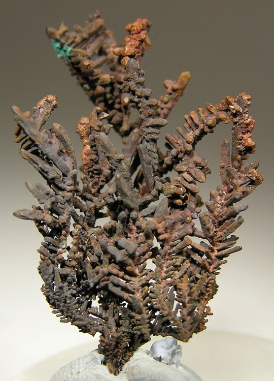 Copper Locality: Ogonja Mine (Onganja Mine), Ogonja (Onganja), Seeis, Windhoek District, Khomas Region, Namibia (Locality at ) A FINE small mini of copper from the Onganja - crystallized from top to bottom, as you can see! 3.5 x 2.1 x 1.0 cm